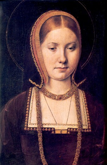 This portrait of an unknown noblewoman from the early 16 century was identified as a young Catherine of Aragon, c. 1500-1505, by Max Jakob Friedländer in 1915, based on comparisons with other paintings by Sittow. (Max J. Friedländer, “Gemäldegalerie. Ein neu erworbenes Madonnenbild im Kaiser-Friedrich-Museum”, Amtliche Berichte aus den Königlichen Kunstammlungen, 36, 9 (1915), pp. 1-4.) This was subsequently challenged by Matthews (Paul G. Matthews, “Henry VIII’s Favourite Sister? Michel Sittow’s Portrait of a Lady in Vienna”, Jahrbuch der Kunsthistorischen Museums Wien 10 (2008), pp. 140-149.), who argued it was Mary Tudor, Henry VIII's sister, painted in 1514. The website of the Kunsthistorische Museum (where the portrait is located) describes this painting as both "Portrait of a princess (Infanta Catharine of Aragon (1485-1536), Queen of England?)" ( and "Mary Rose Tudor (1496-1533), sister of Henry VIII of England". In the physical gallery the painting is described as Mary Rose Tudor.(